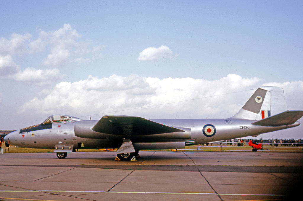 English Electric Canberra PR.9 XH130 of 13 Squadron RAF at RAF Waddington in 1964